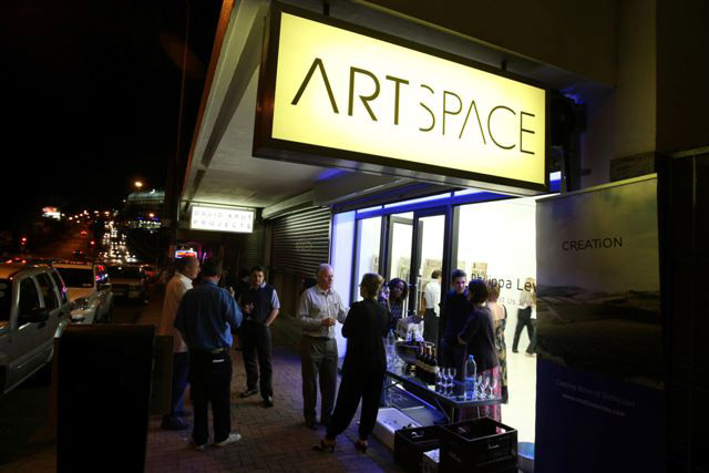 Night time outside the Artspace Gallery